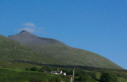 Ben More, Mull from the shores of Loch na Keal